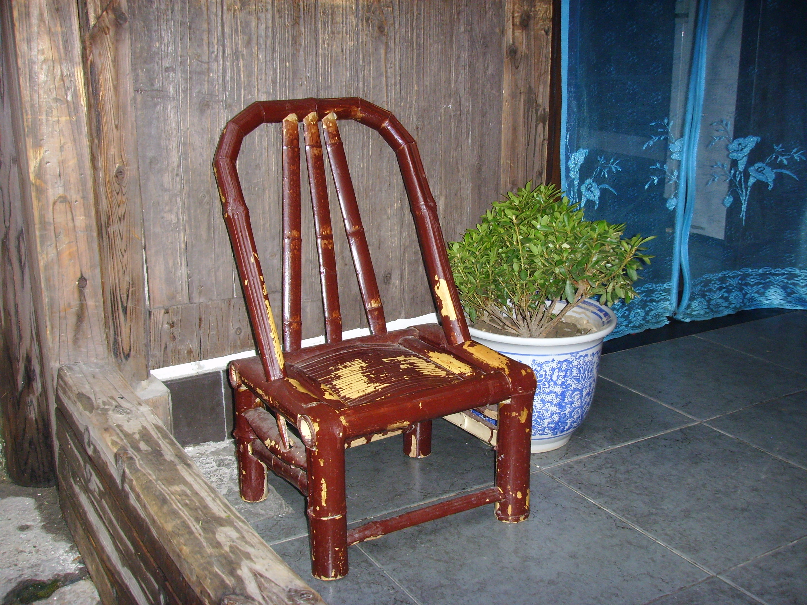 Wuzhen Xizha, Tongxiang, Zhejiang, P. R. of China: chair at the front door